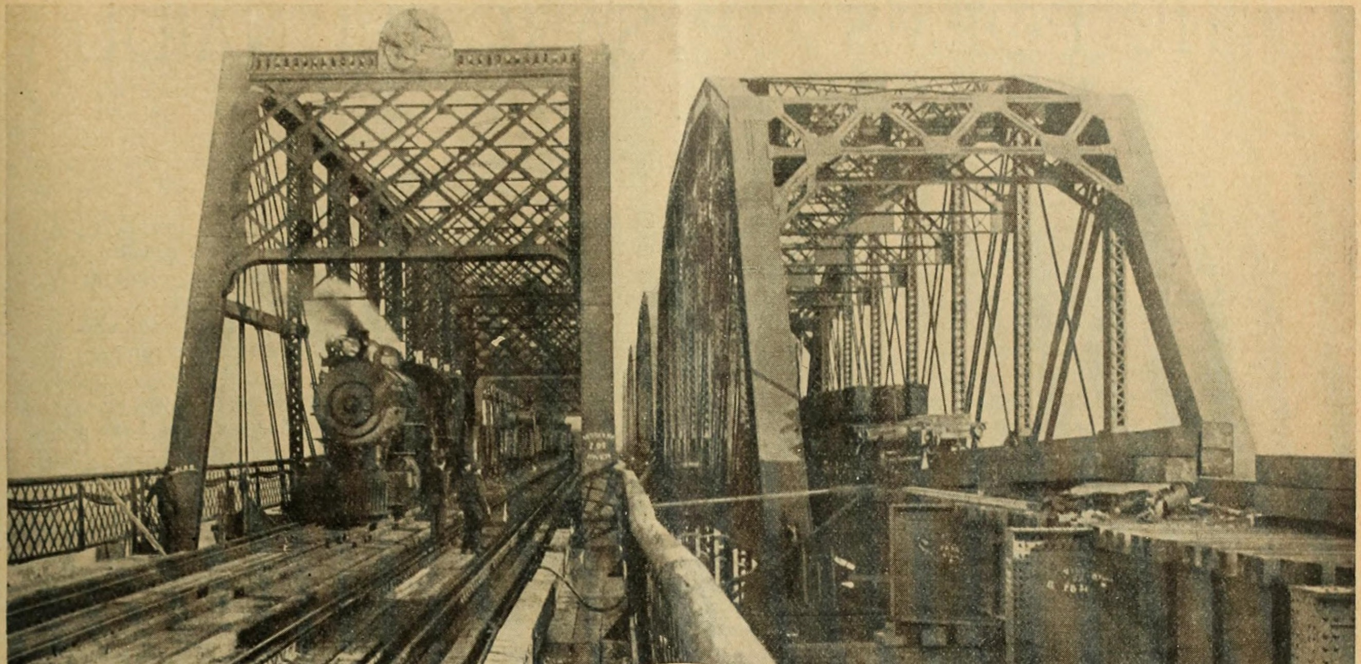 Shifting of new Union Pacific Missouri River Bridge at Omaha, December 1916